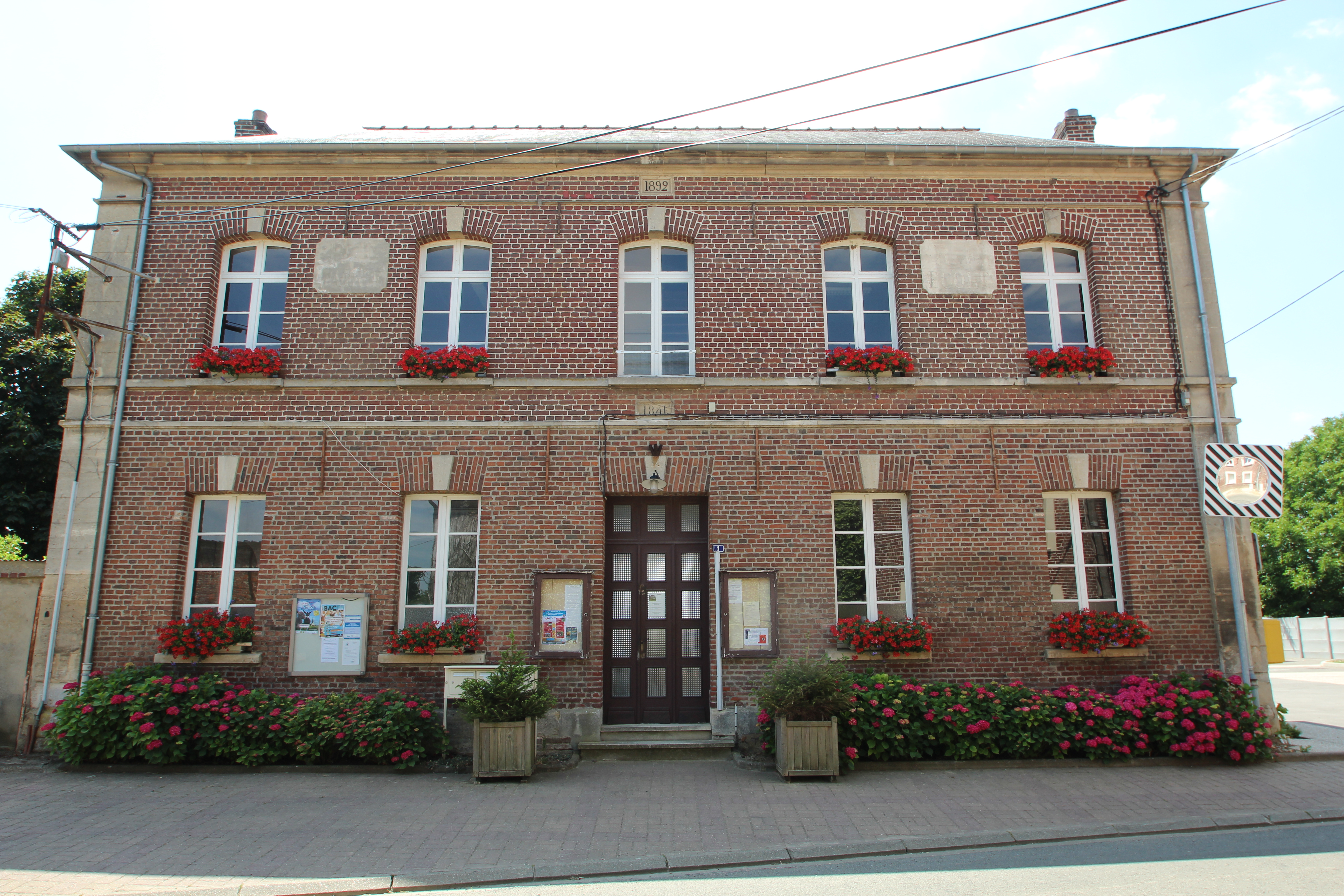 Town hall of Bonlier, France This image was uploaded as part of L'Été des villes 2015.